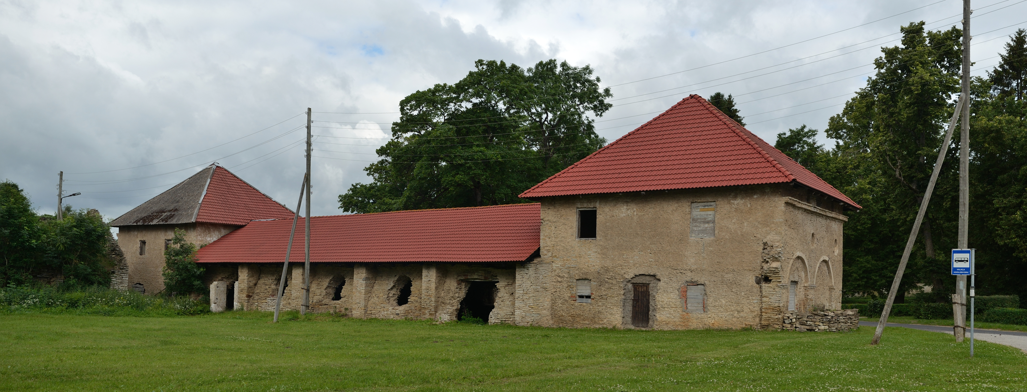 Valkla manor stable